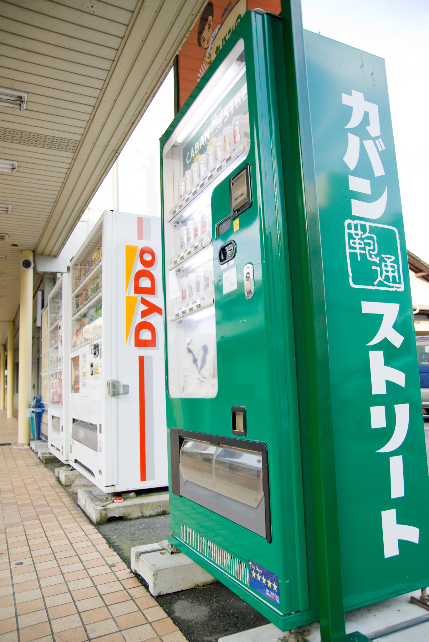 Caban street (Yoida Street) in Toyooka, Hyogo Prefecture, Japan.